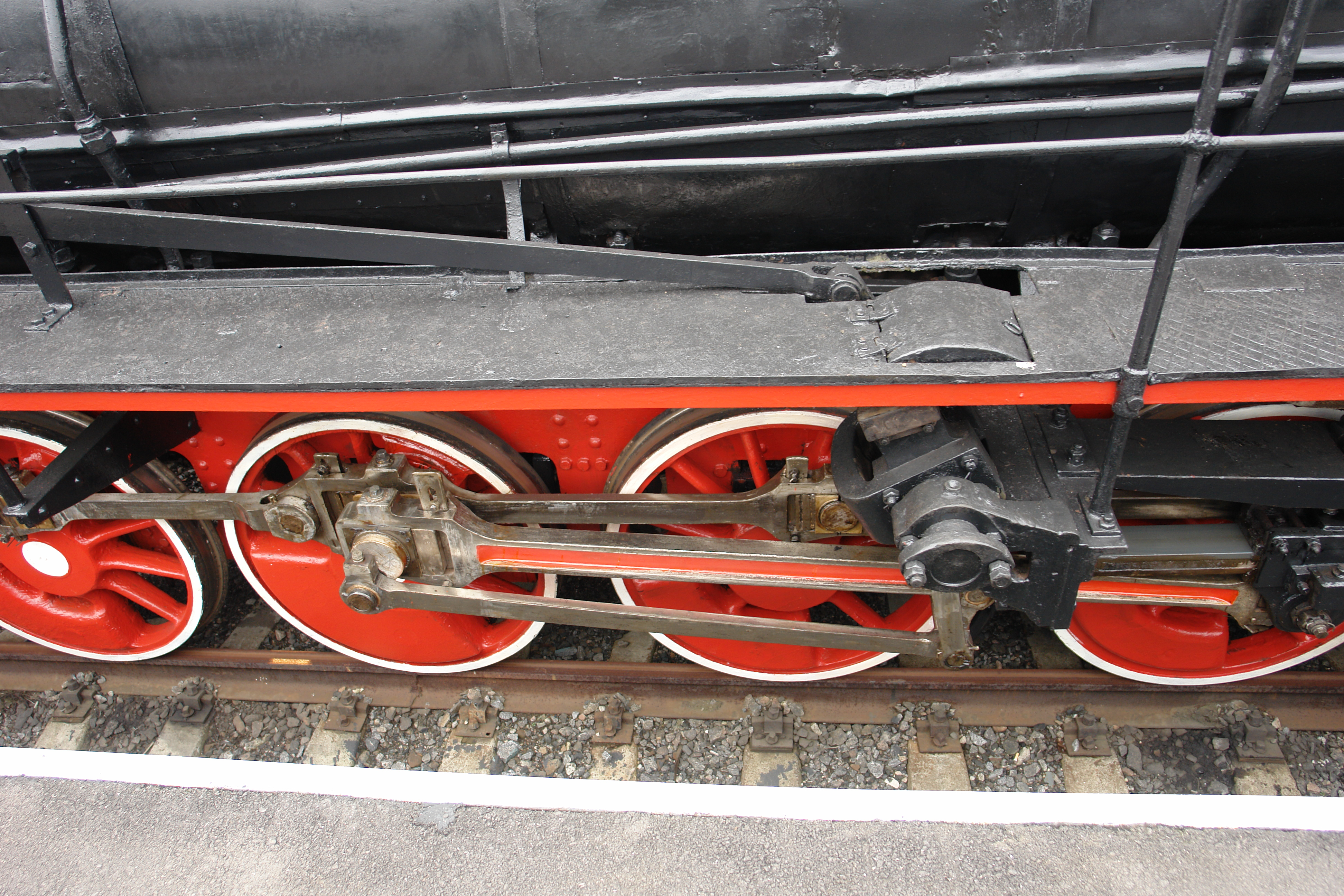 Steam locomotive OD 1080 (no additional information avaible)